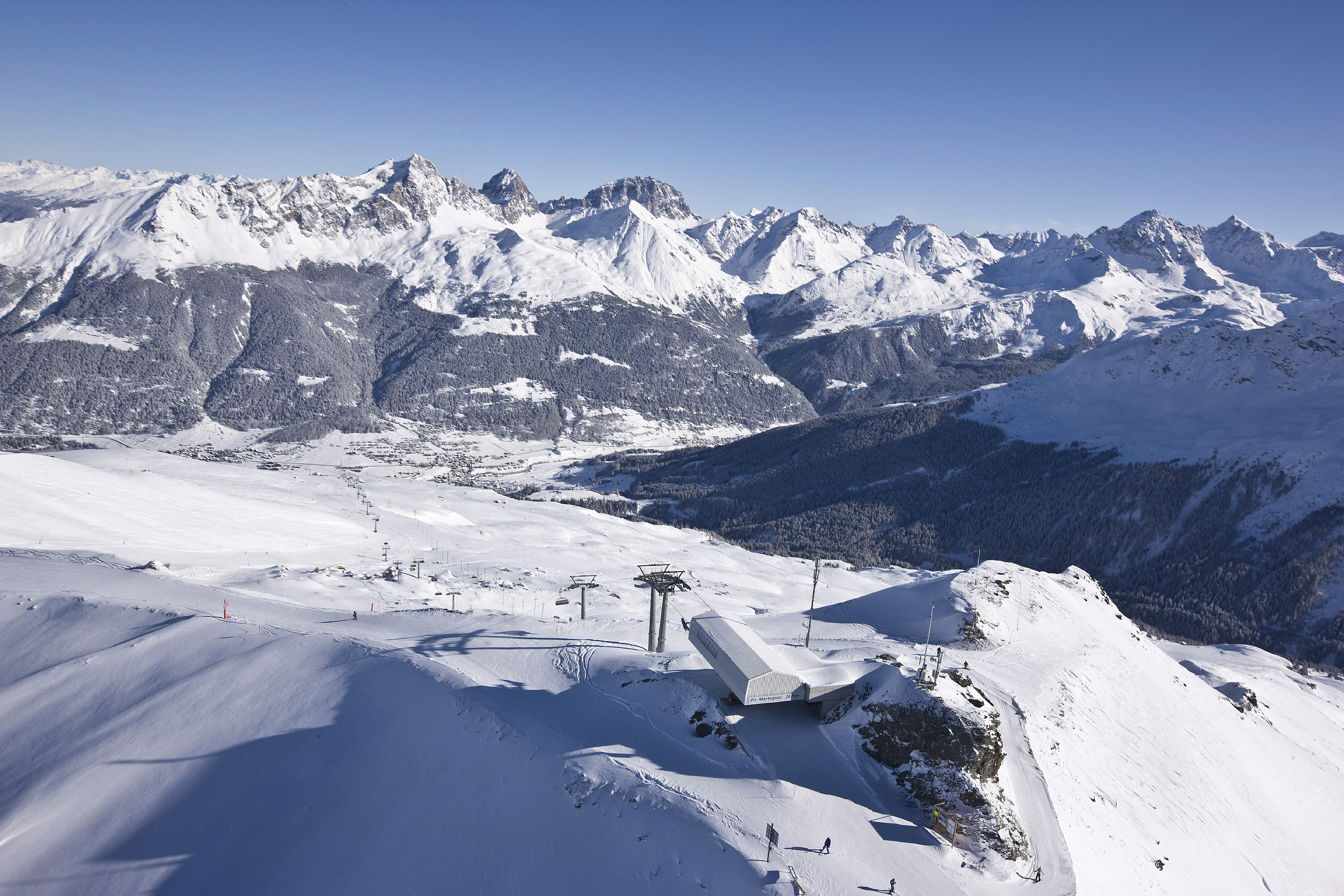 Piz Martegnas with Bergünerstöcke and Err-Gebiet, Savognin, Grisons, Switzerland